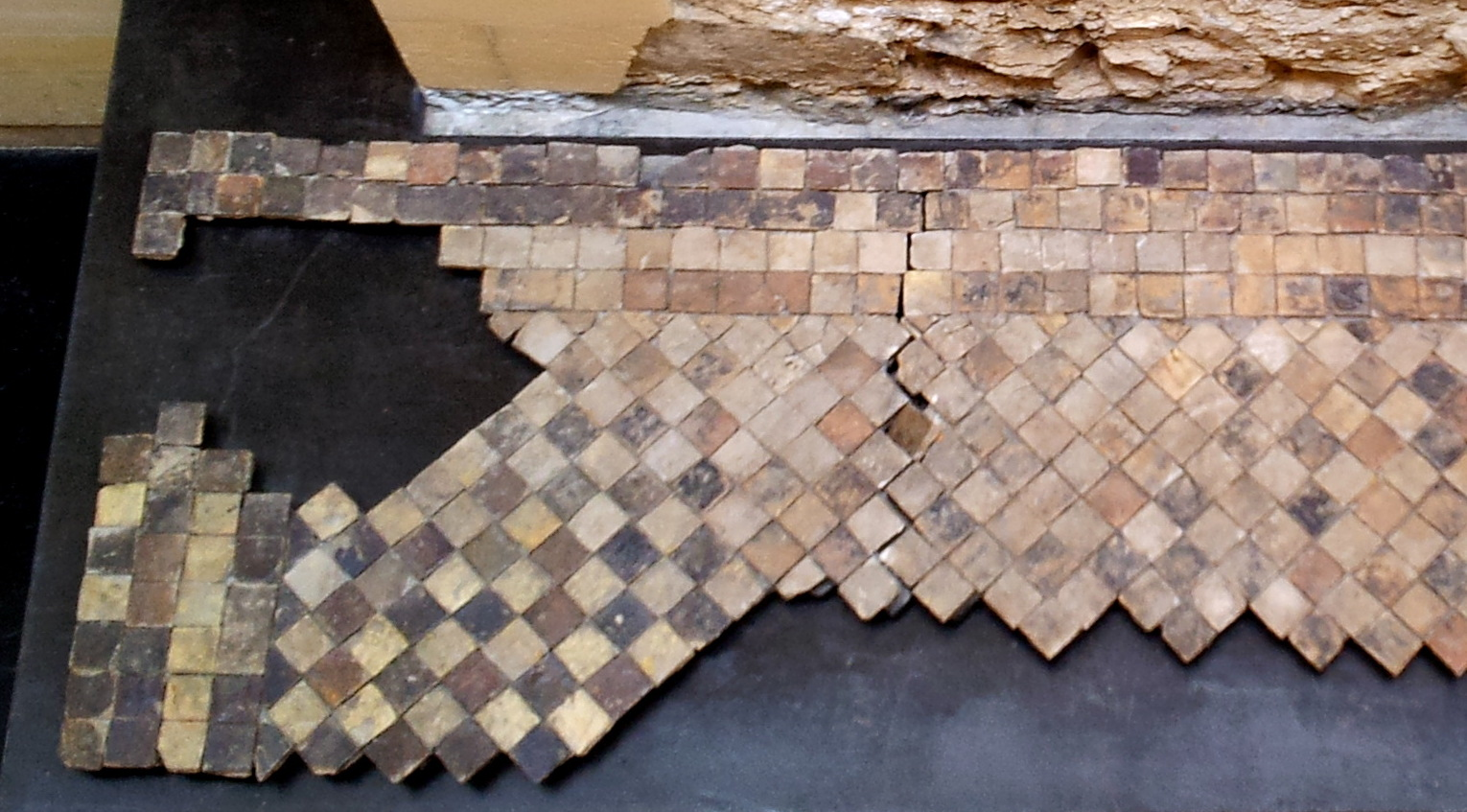 Maastricht, the Netherlands. Remnant of a floor excavated in the Old Monastery of the Minorites (Oude Minderbroedersklooster) in Sint Pieterstraat, Jekerkwartier.